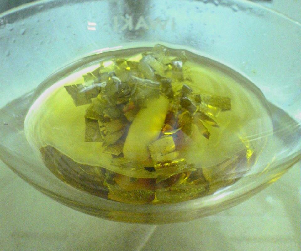 An example of chemical experiment using Grignard reagent. Part 2. Covered with THF and small piece of iodine added.